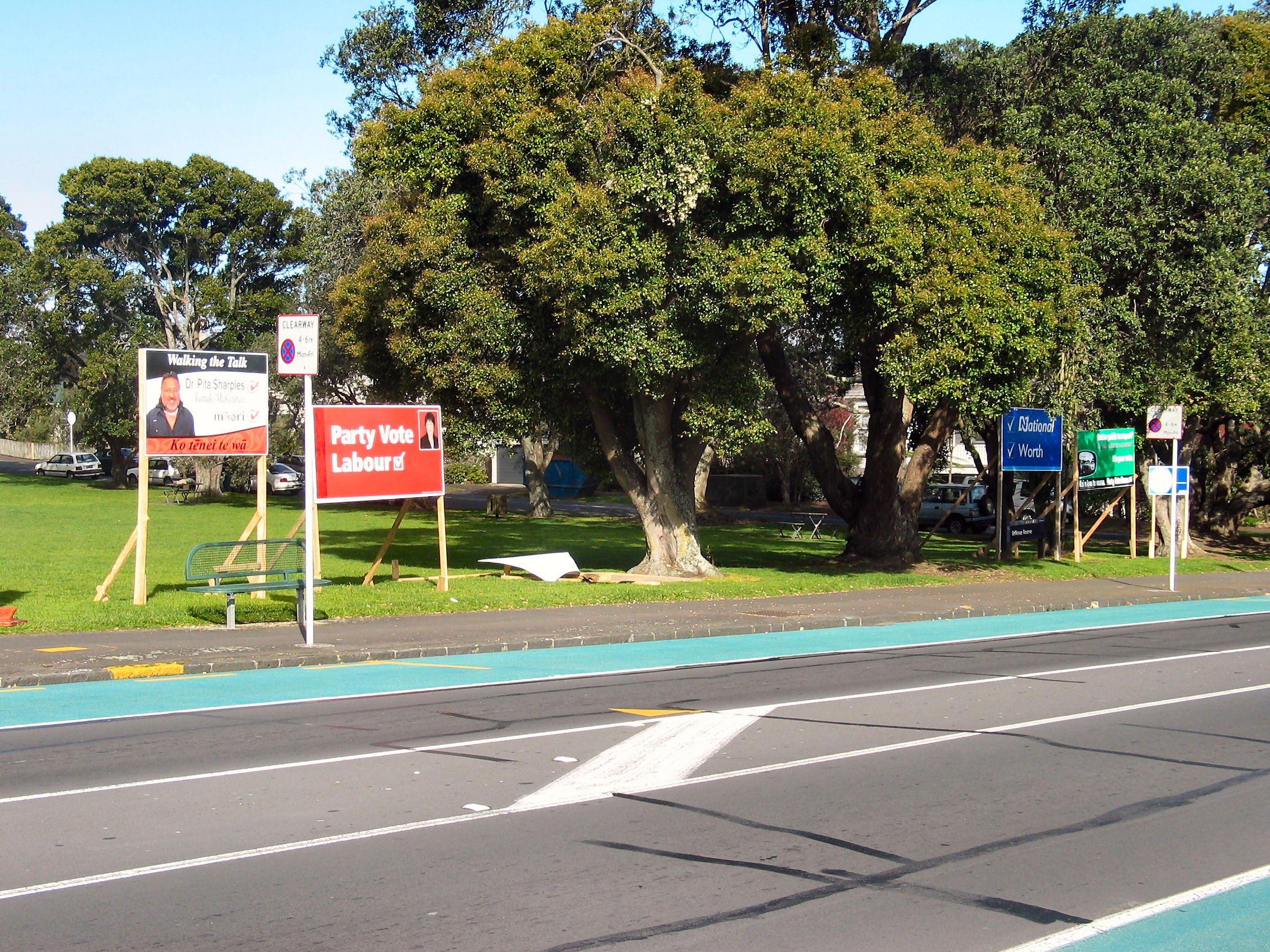 Election billboards advertising parties standing candidates in the 2005 New Zealand general election. The billboards advertise (from left) the Maori Party, Labour, (a vandalised billboard for the Destiny Church), National, the Greens, and a small billboard for the Libertarianz.